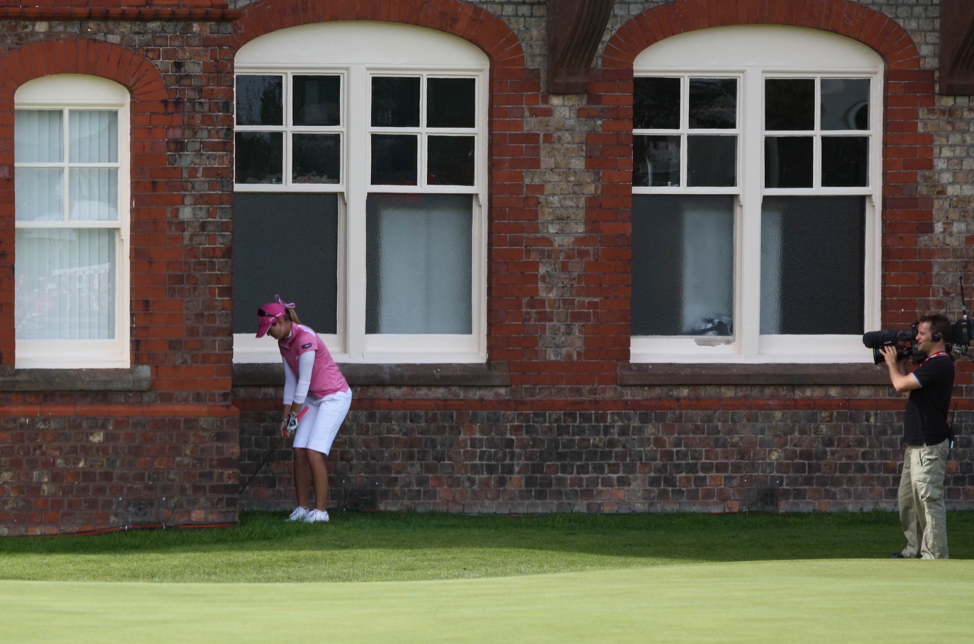 LYTHAM ST ANNES, UNITED KINGDOM - AUGUST 02: Paula Creamer of USA up against the Club House wall preparing for her 4th shot to the 18th green during last round of the 2009 Ricoh Women's British Open held at Royal Lytham & St Annes on August 2, 2009 in Lytham St Annes, England. (Photo by Wojciech Migda)